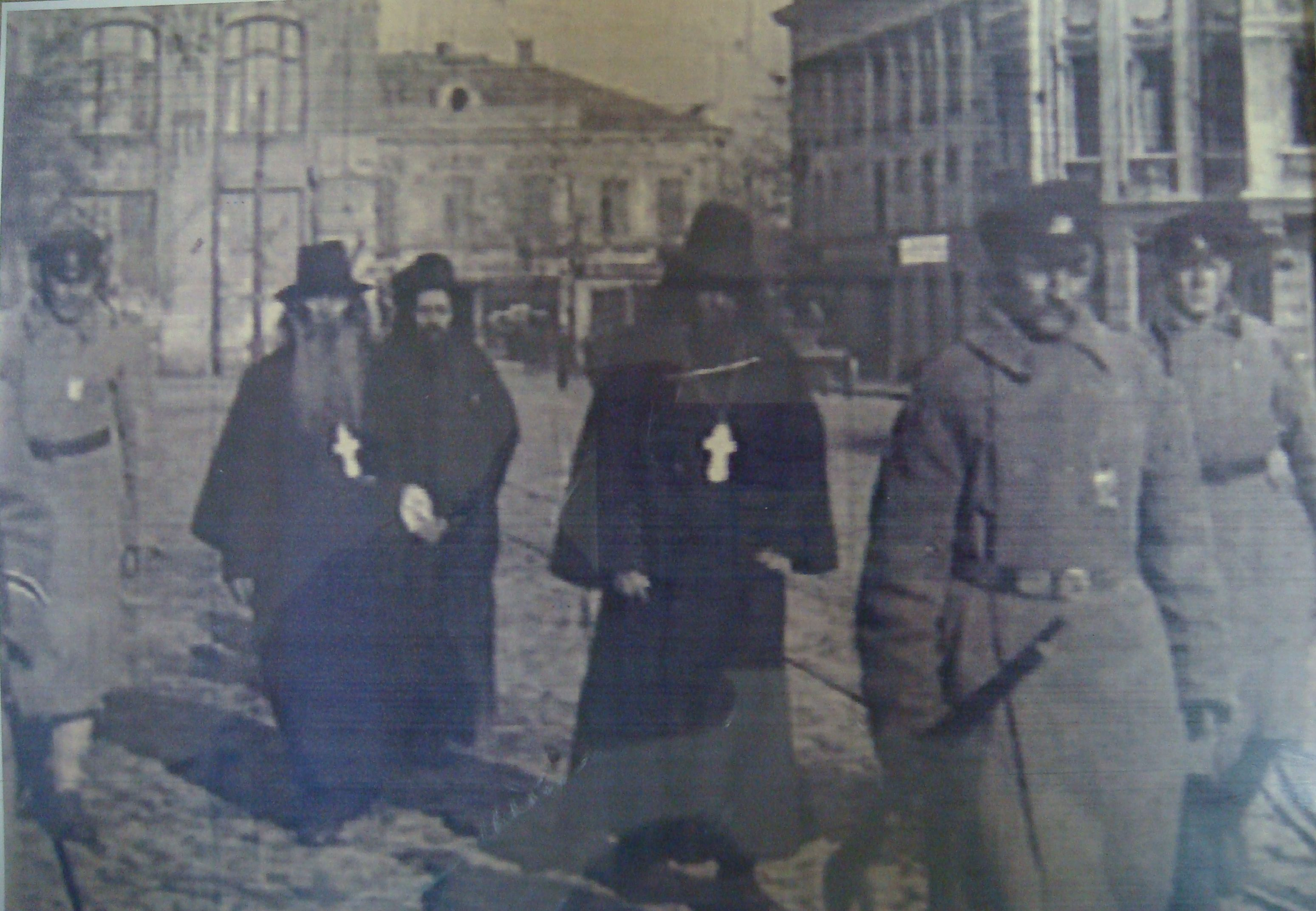 Arrested priests in Odessa. Spring 1920. Grecheskaya square. Deribasovskaya street background. Bolshaya Moskovskaya hotel on the left